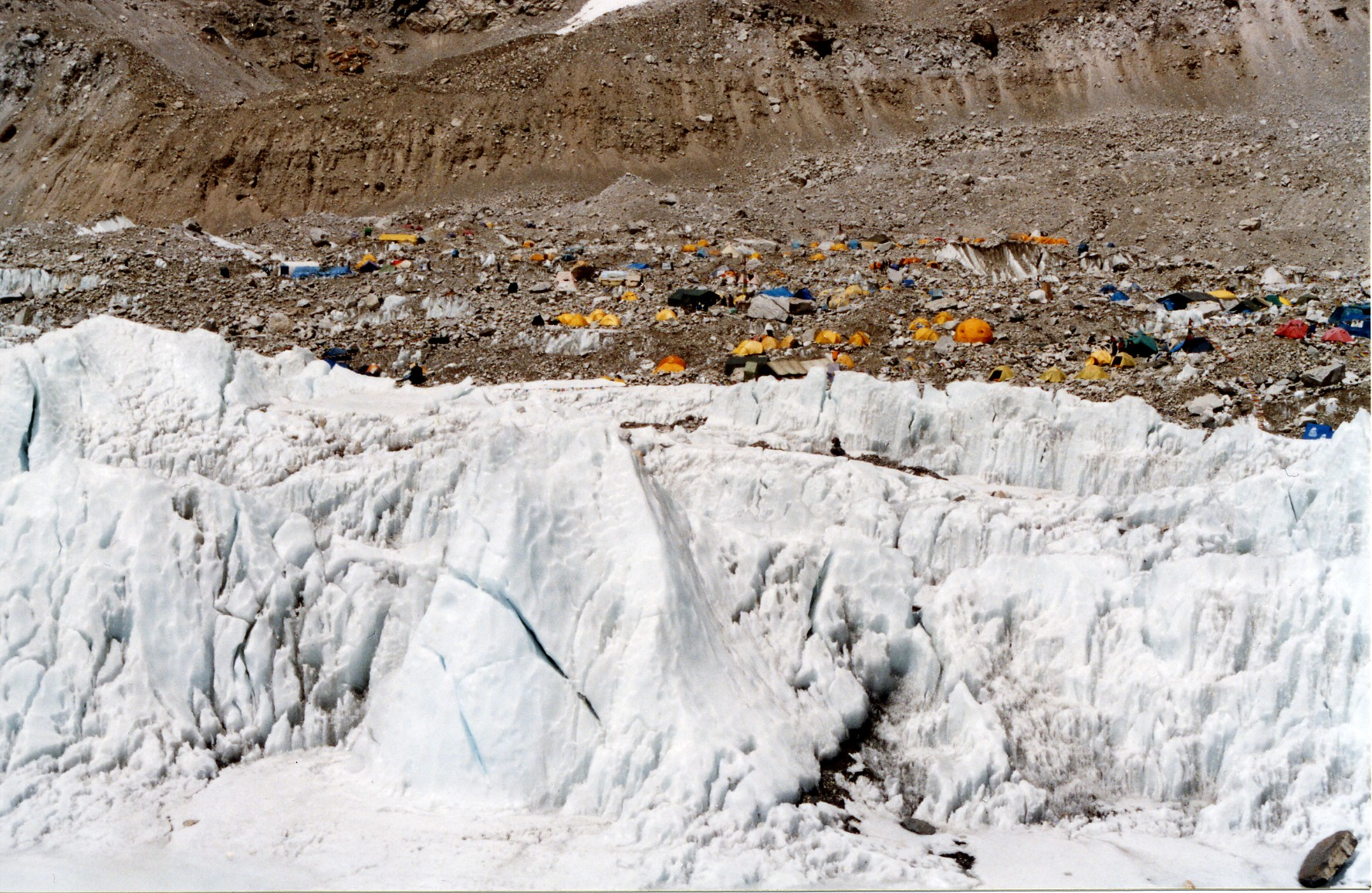 Everest Basecamp (Nepalese side) as seen from the Khumbu Icefall Own photograph, taken March 2005 --Uwe Gille 18:40, 4 January 2006 (UTC)